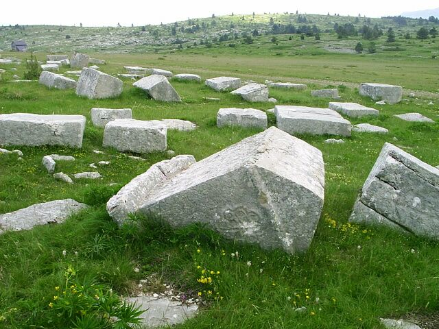 Stećci tombstones near Blidinje, Bosnia and Herzegovina